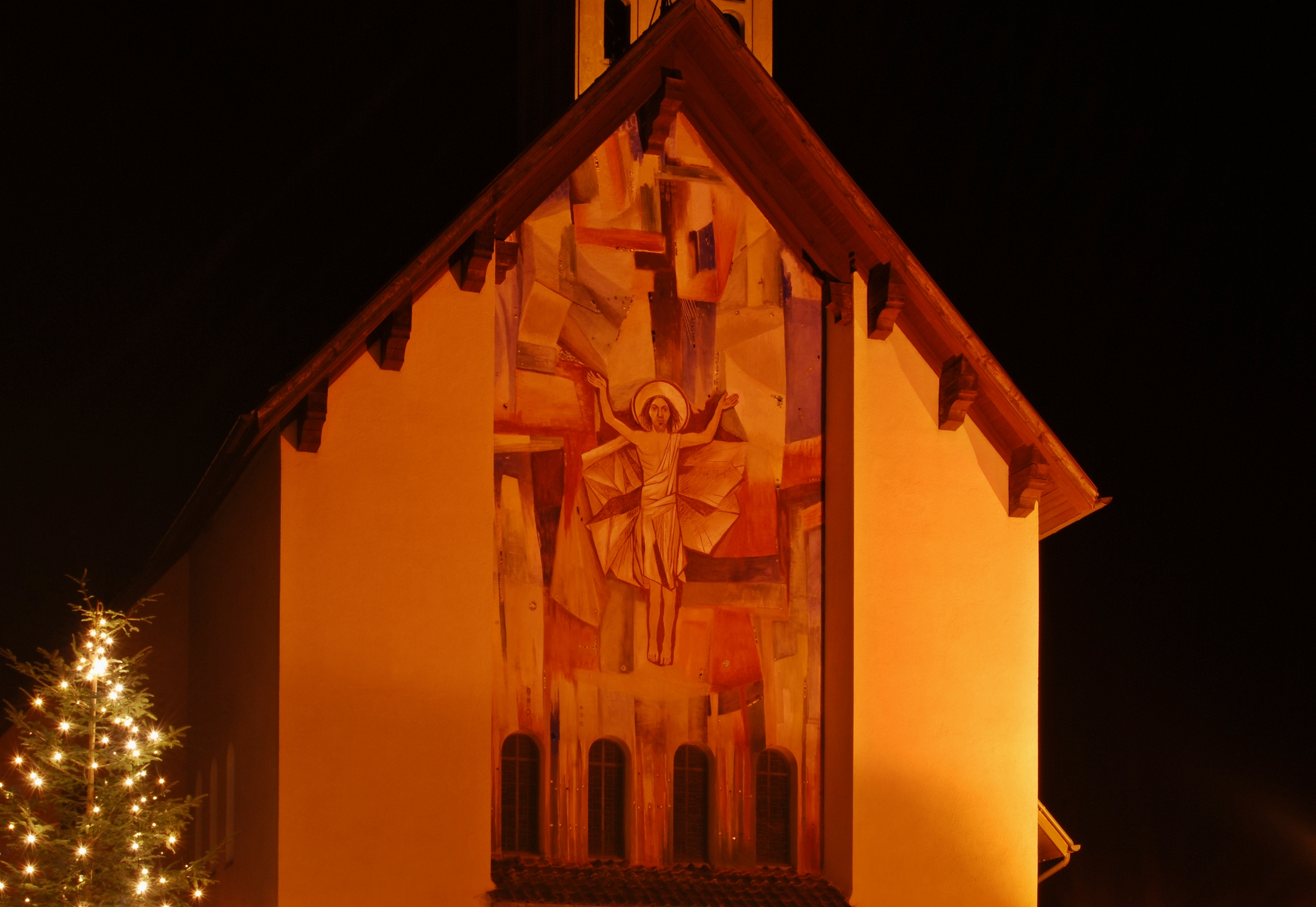 The church of Bedollo at night.